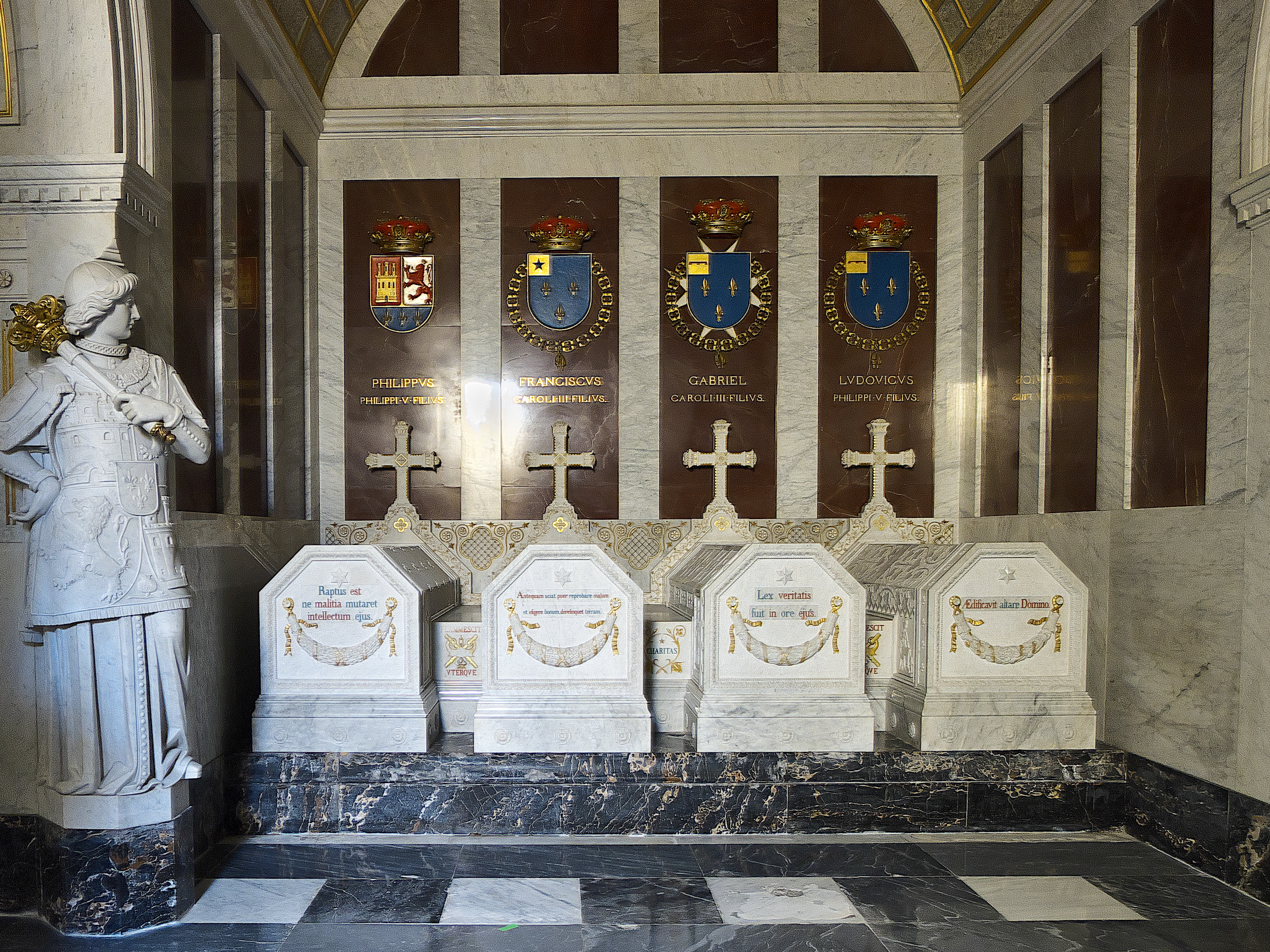 Pantheon of the Infantes - Chapel 8